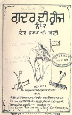 image shows mother india in chains of slavery, with awakening revolutionary images of swords symbolising armed struggle for independence movement. ਪੰਜਾਬੀ: ਗ਼ਦਰ ਦੀ ਗੂੰਜ ਰਸਾਲੇ ਦੇ ਦੂਸਰੇ ਸੰਸਕਰਣ ਦਾ ਮੁੱਖ ਪੰਨਾ ਜਿਸ ਵਿਚ ਭਾਰਤਮਾਤਾ ਨੂੰ ਗੁਲਾਮੀ ਦੀਆਂ ਜੰਜੀਰਾਂ ਵਿਚੋਂ ਨਿਕਾਲਣ ਲਈ ਸਸ਼ੱਸਤਰ ਜਦੋਜਹਿਦ ਦਾ ਆਗਾਜ਼ ਦਰਸਾਇਆ ਹੈ।